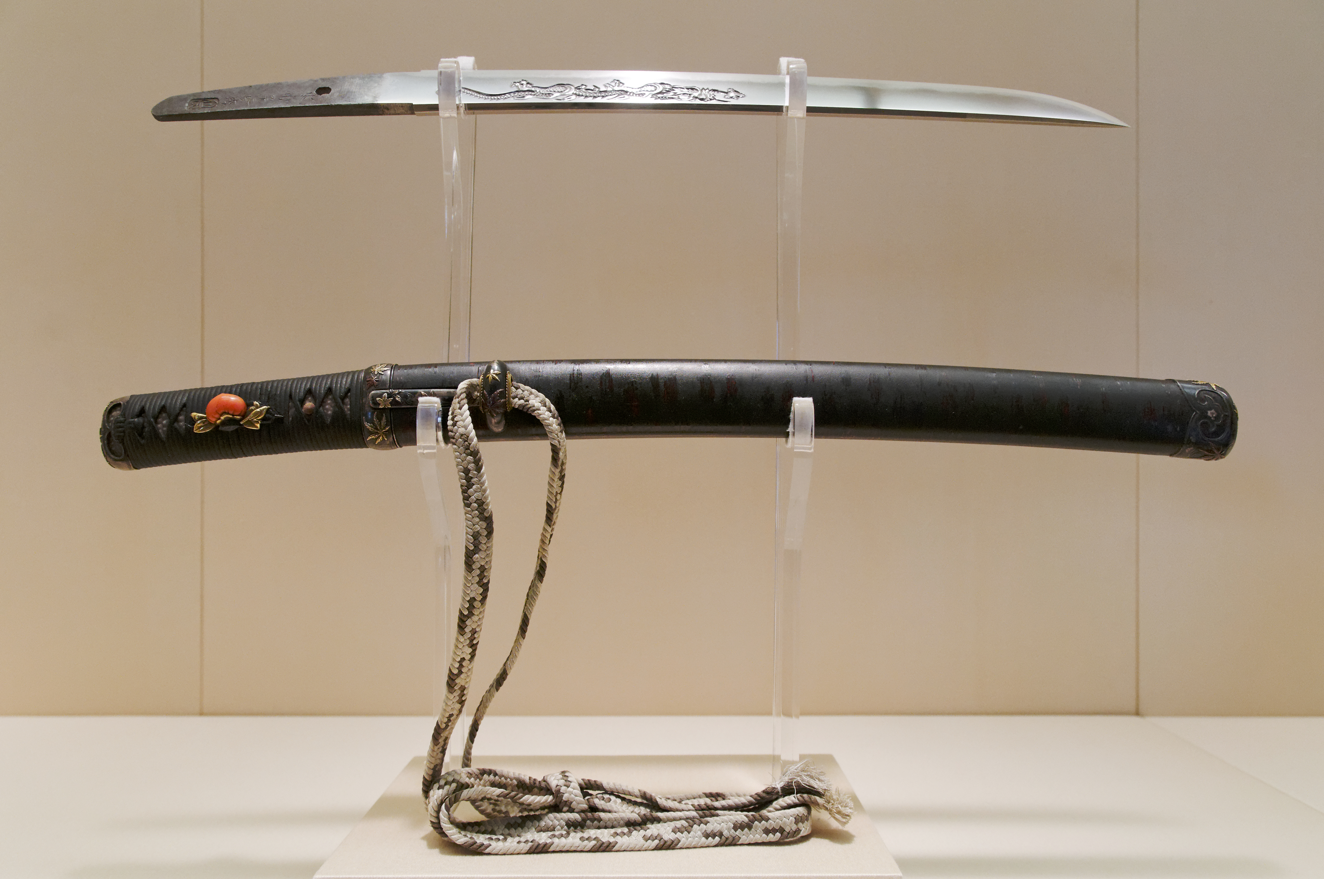 Blade for a wakizashi, inscribed by Masahide and koshirae (mountings), Edo period.